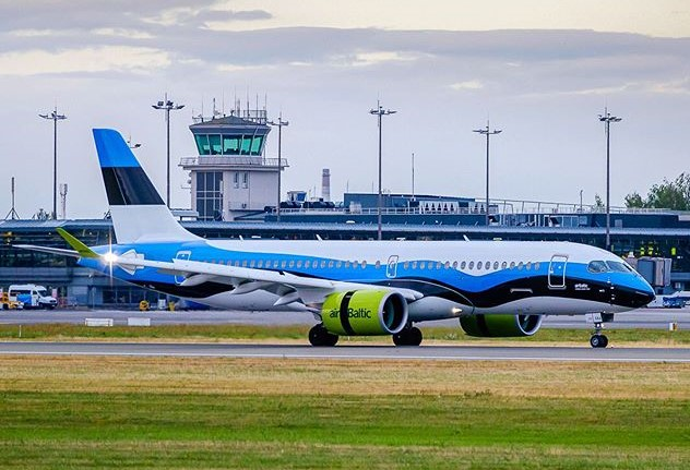 An airBaltic flight that just landed at Riga airport